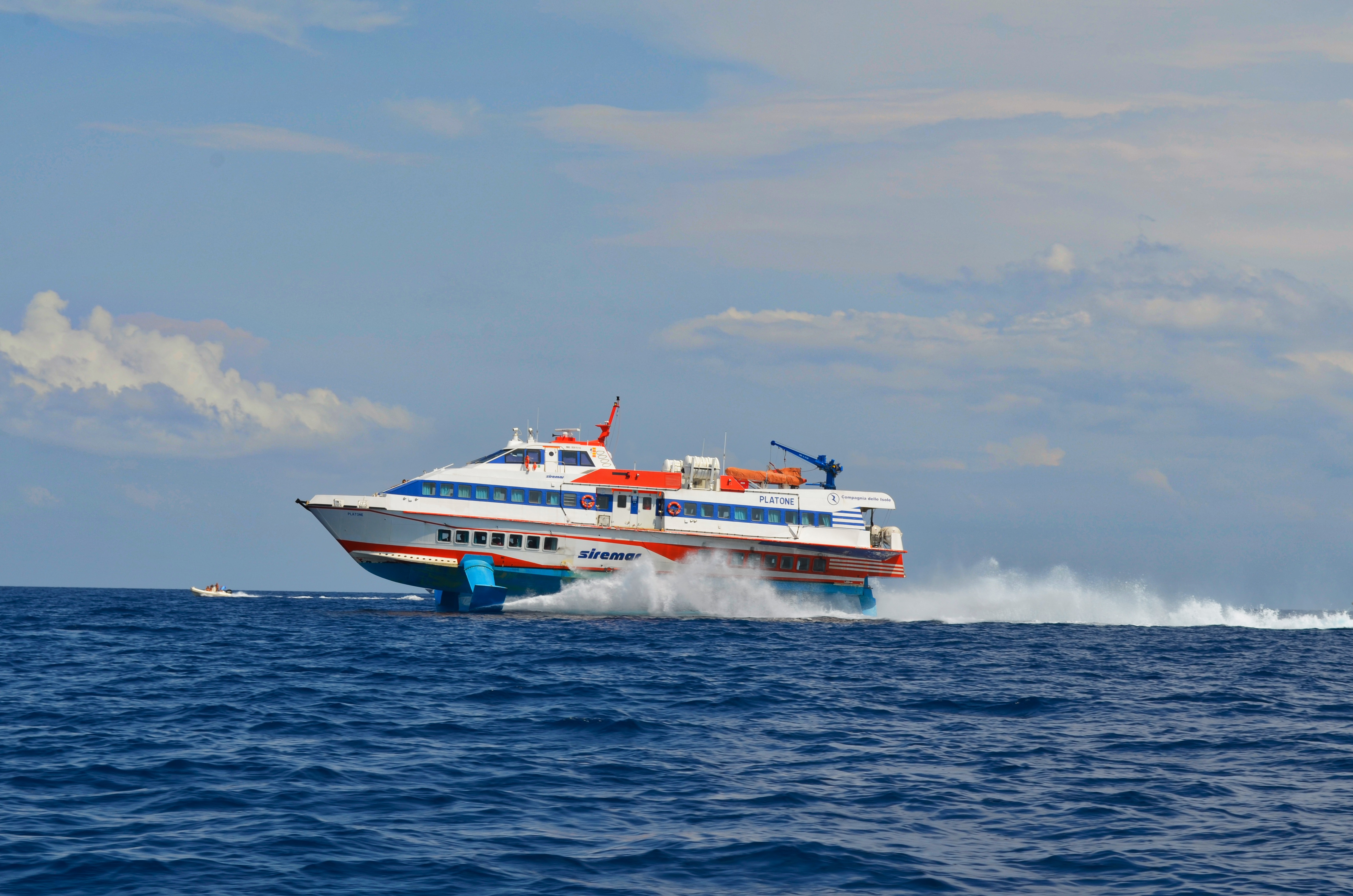 A siremar boat in Lipari, Italy